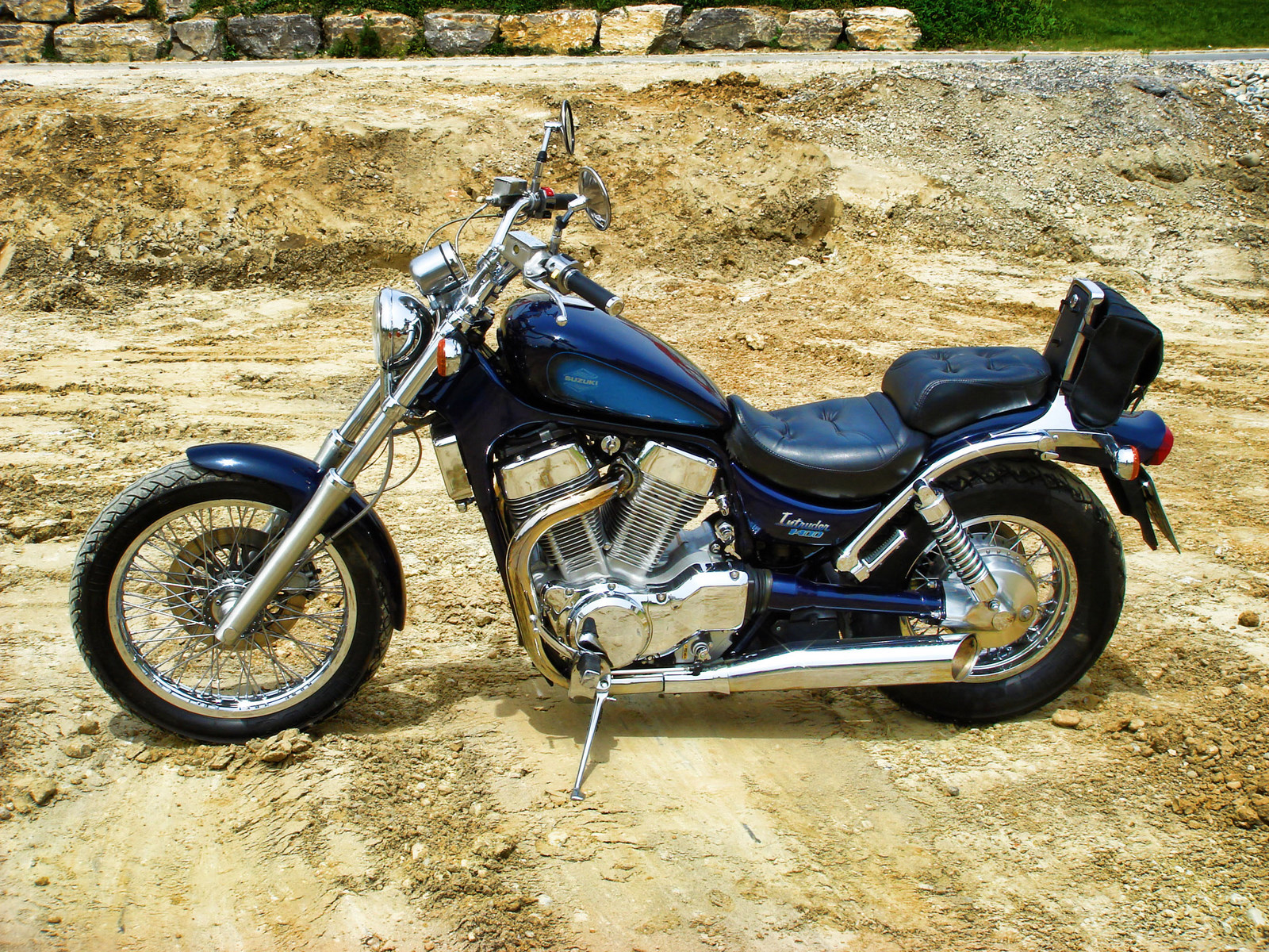 Motorbike Suzuki Intruder VS1400